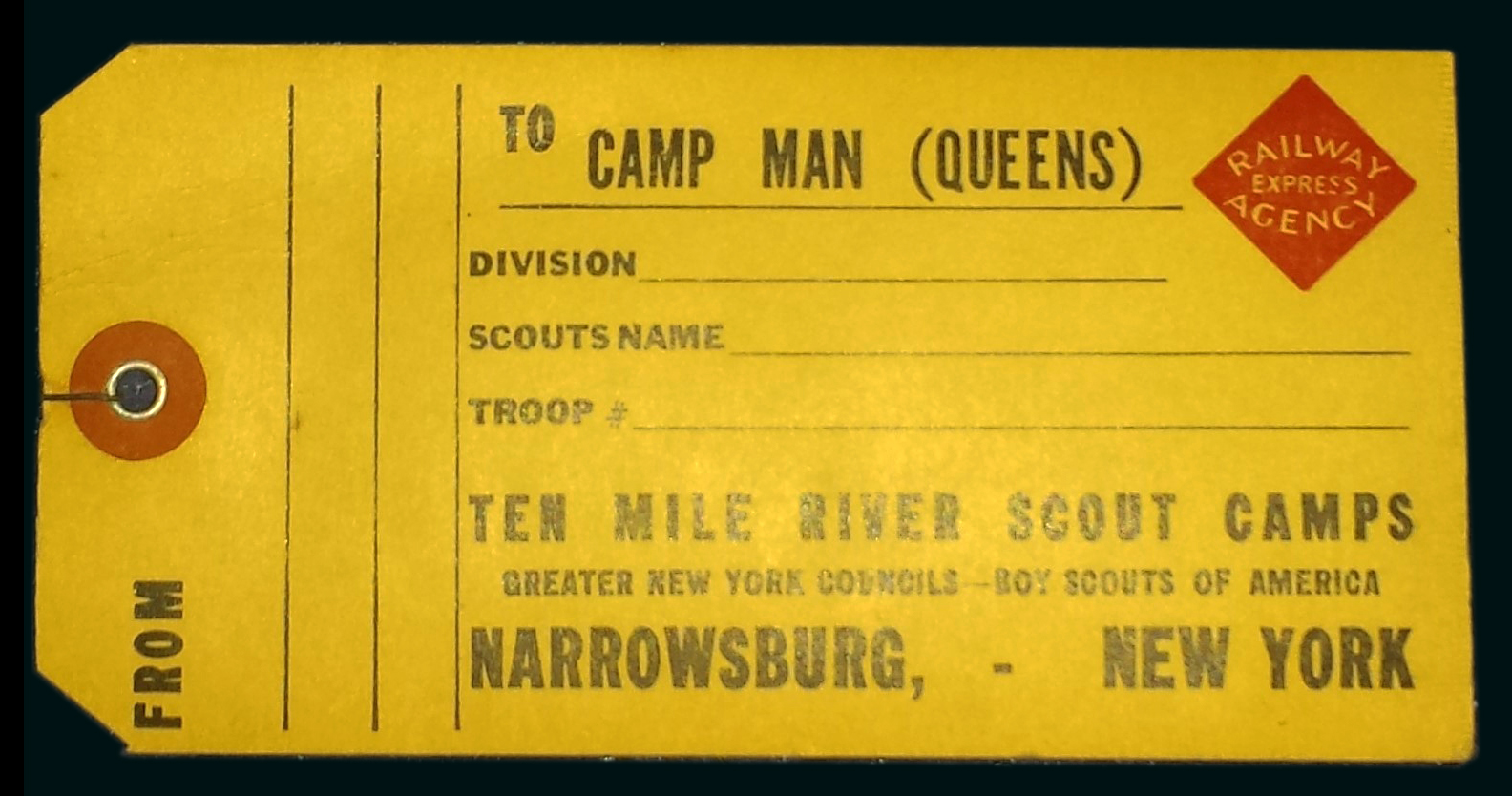 Railway Express Agency luggage tag from NYC to the Queen's Boy Scout camp, Camp Man at Ten Mile River Scout Camps.